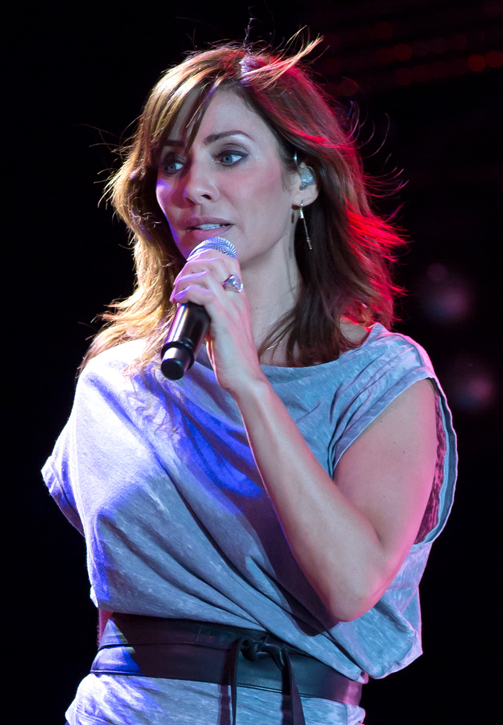 Natalie Imbruglia at Donauinselfest 2015 in Vienna, Austria